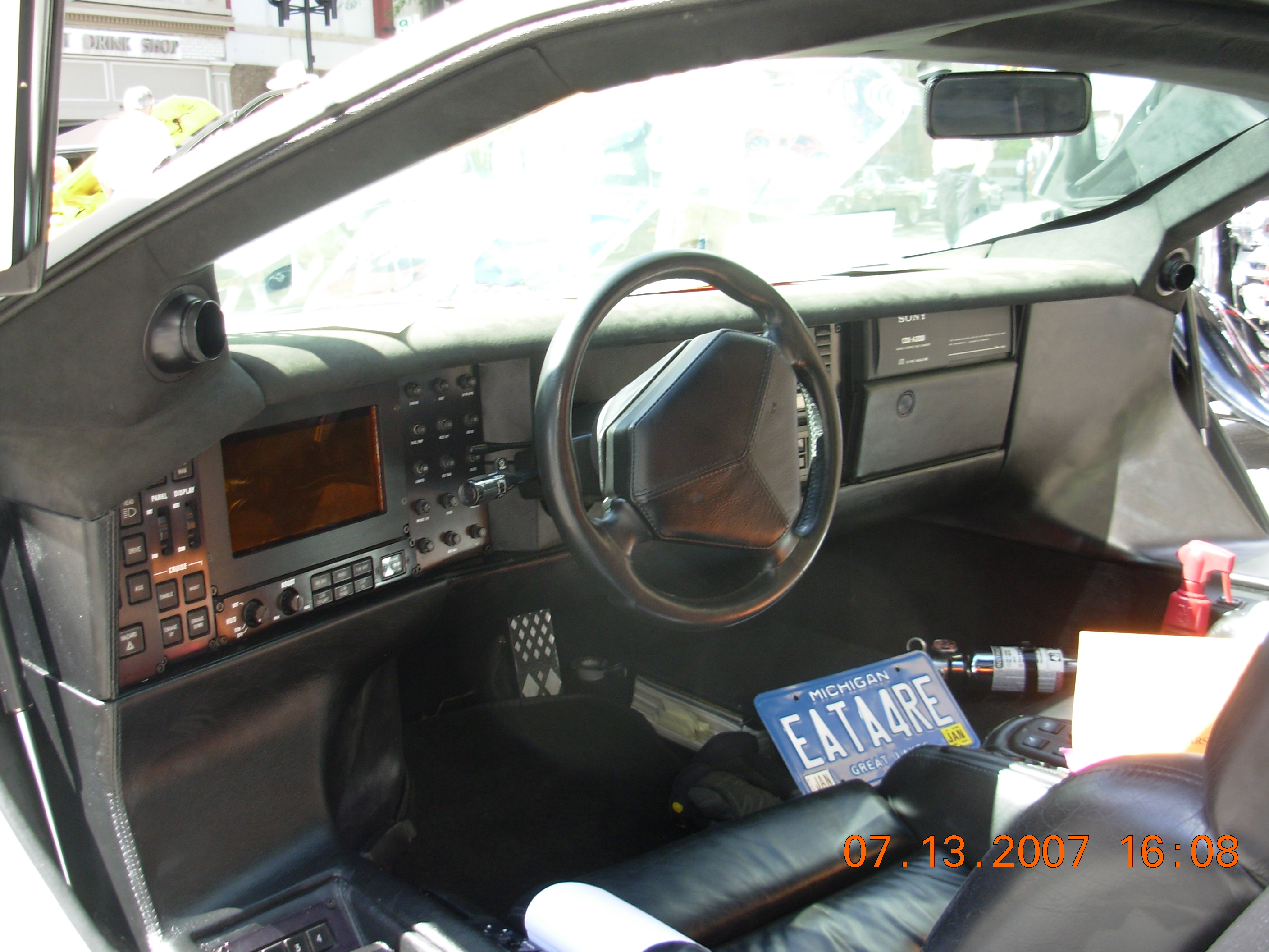 Vector W8 Twin Turbo interior